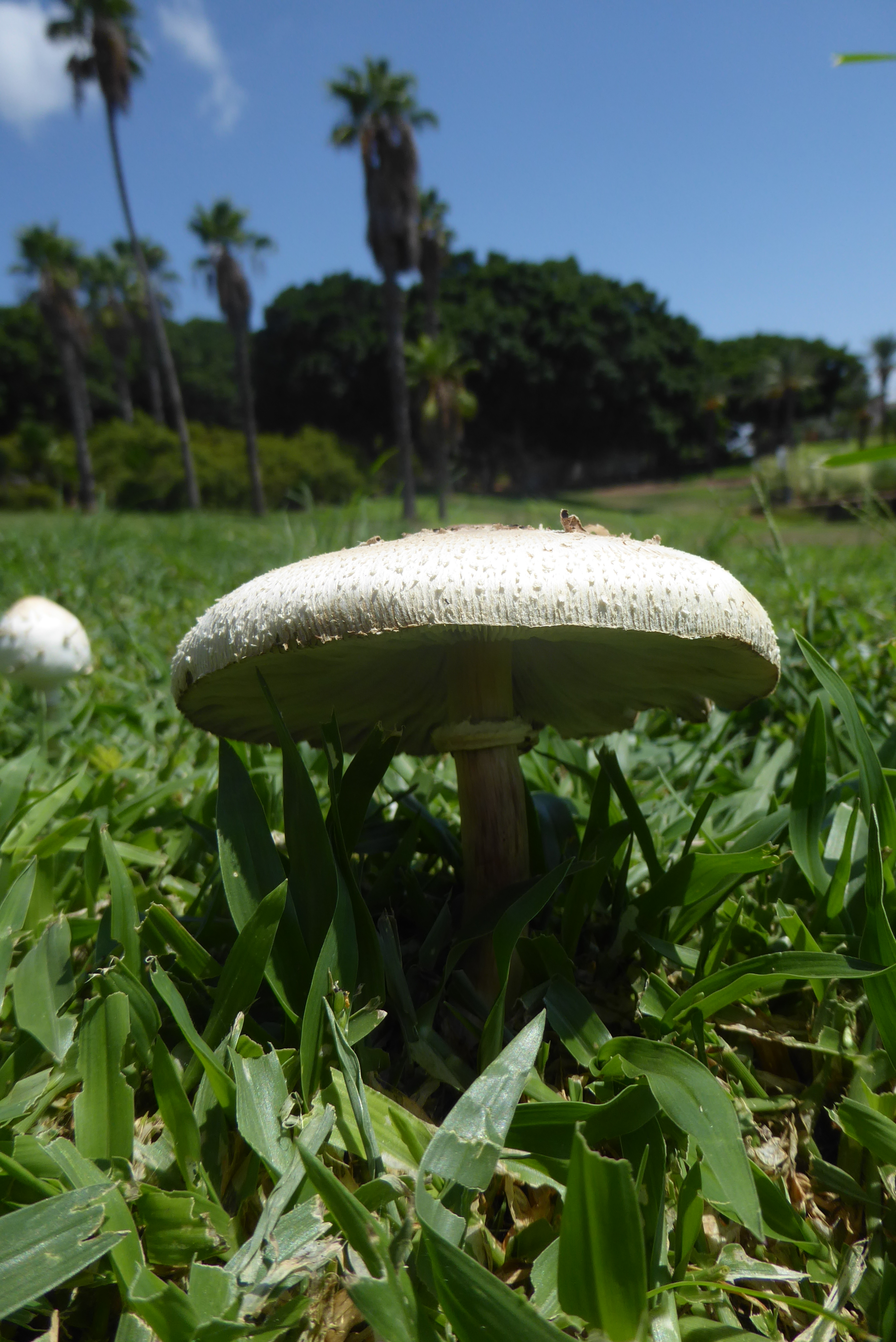 Edith Wolfson Park